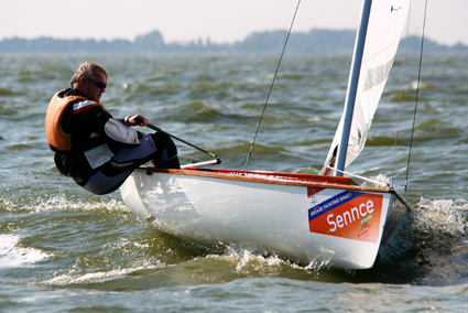 Winner 2008 Vintage Yachting Games O-Jolle